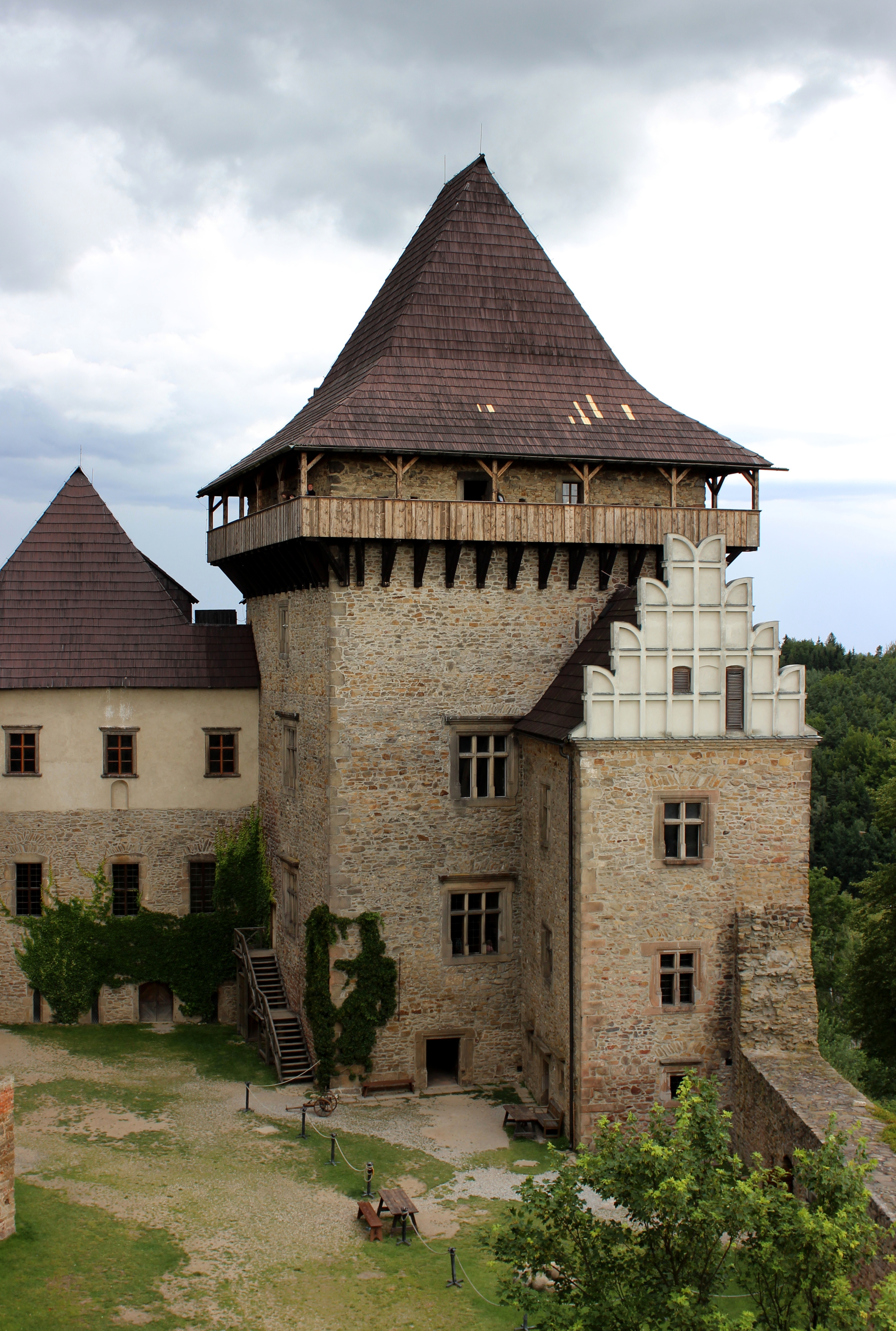 Castle in Lipnice nad Sázavou, tower Samson